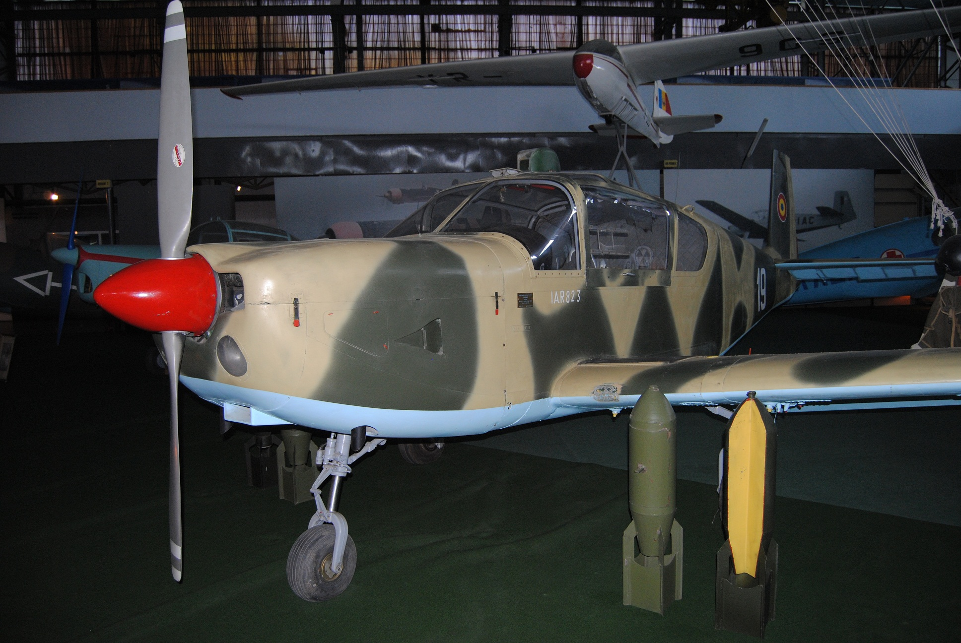 IAR 823 at the Aviation Museum in Bucharest